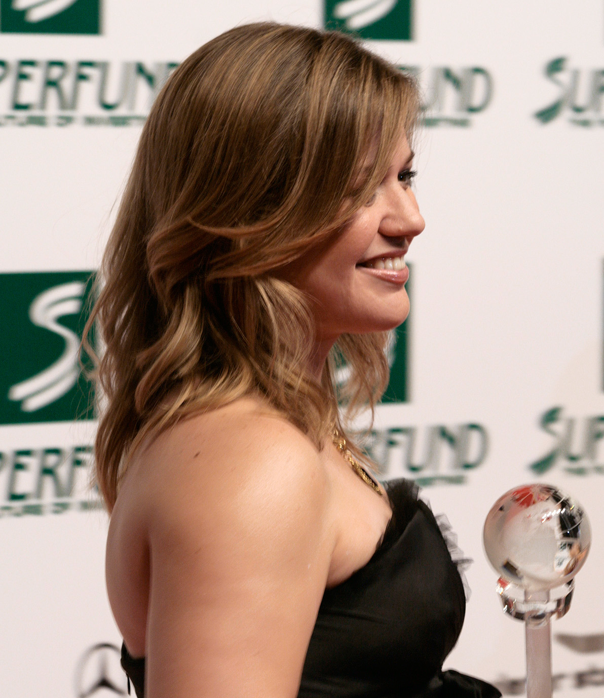 Kelly Clarkson at the Women's World Award 2009 (Wiener Stadthalle, Vienna, Austria).